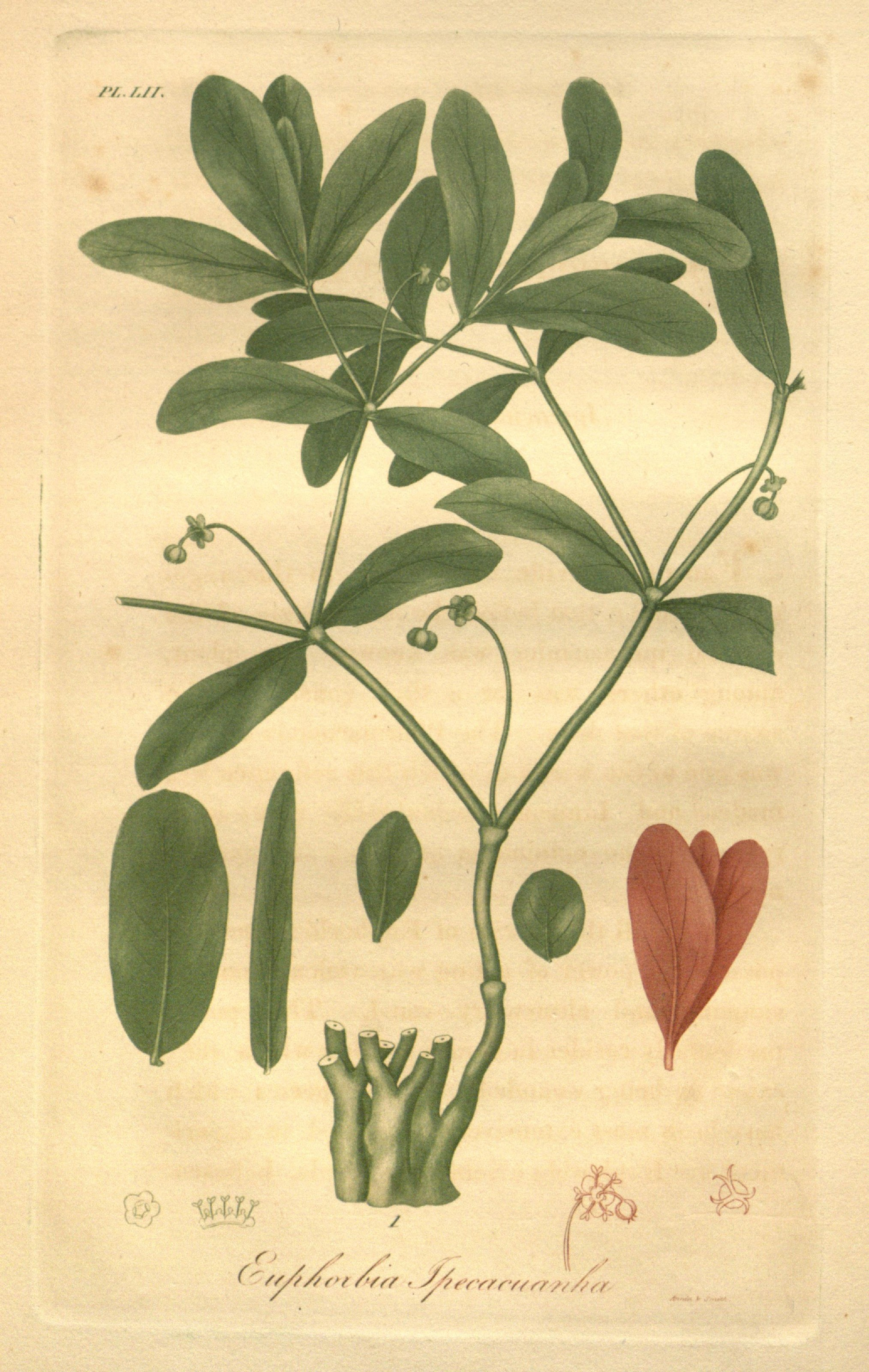 American medical botany :. Boston:Cummings and Hilliard,1817-1820..